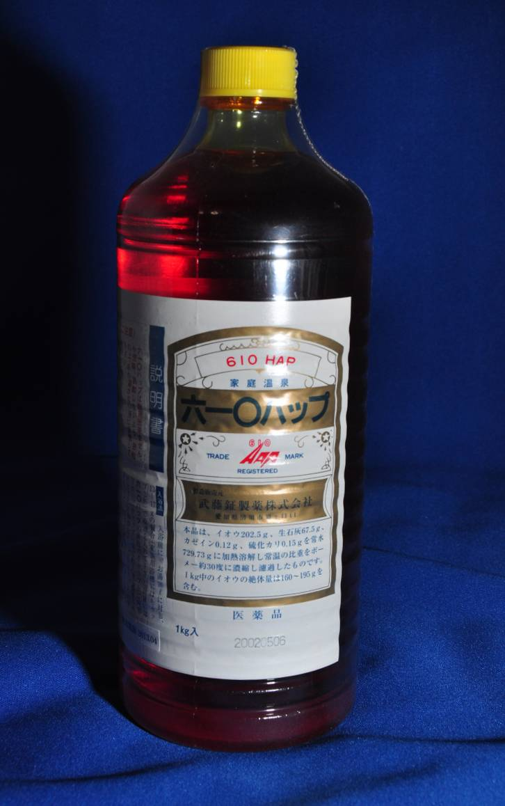 610happu